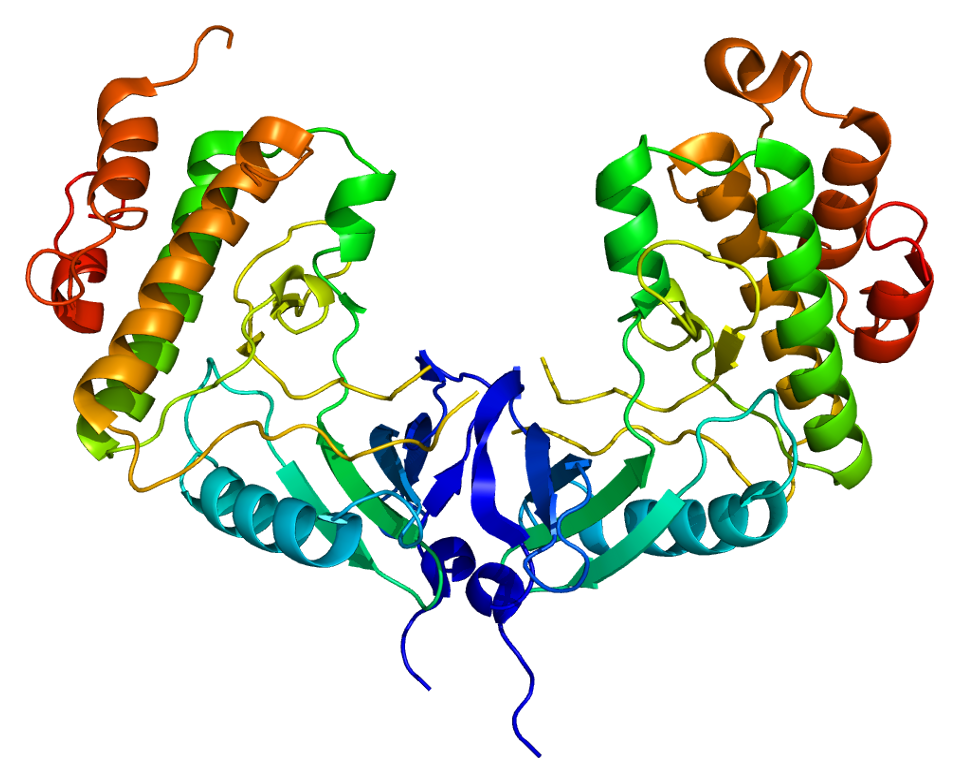 Structure of the MKNK1 protein. Based on PyMOL rendering of PDB 2hw6.